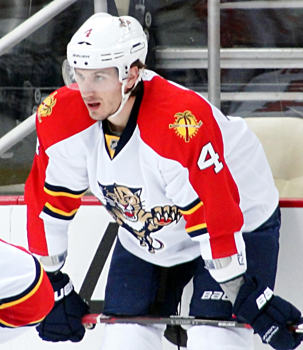 Florida Panthers defenseman Keaton Ellerby skates against the Pittsburgh Penguins, March 9, 2012 at Consol Energy Center in Pittsburgh, PA.